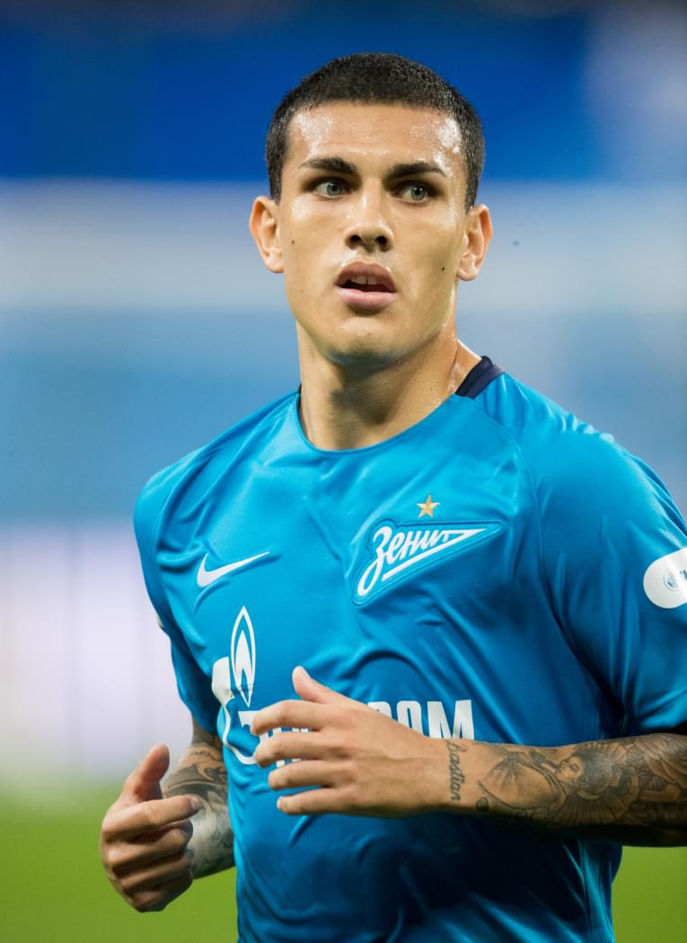 22.07.2017. Россия, Санкт-Петербург, стадион «Санкт-Петербург». Росгосстрах-Чемпионат России 2017/18, «Зенит» — «Рубин».